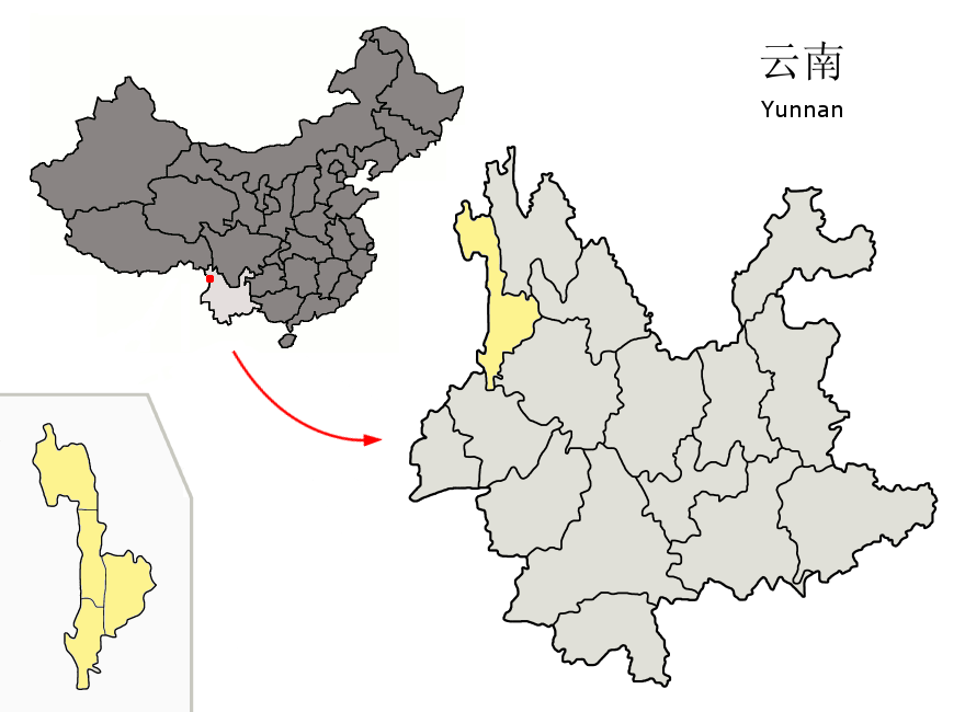 Location of Nujiang Prefecture (yellow) within Yunnan province of China Map drawn in september 2007 using various sources, mainly : Yunnan province administrative regions GIS data: 1:1M, County level, 1990 Yunnan Counties map from